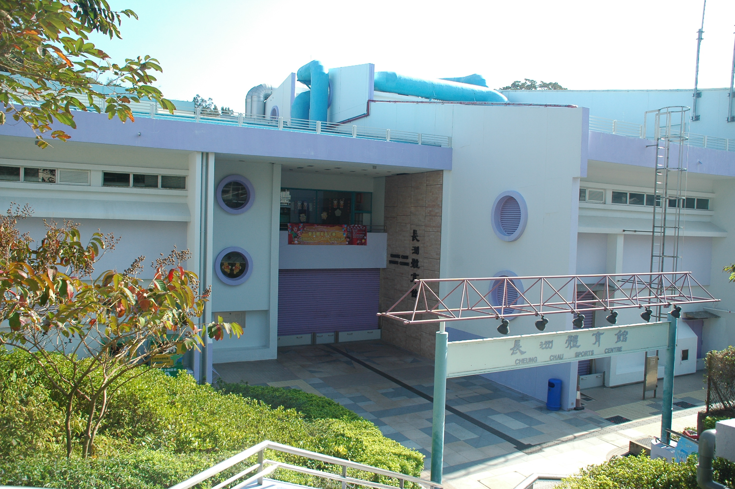 Cheung Chau Sports Centre, 3 Cheung Chau Hospital Road, Cheung Chau, Hong Kong.